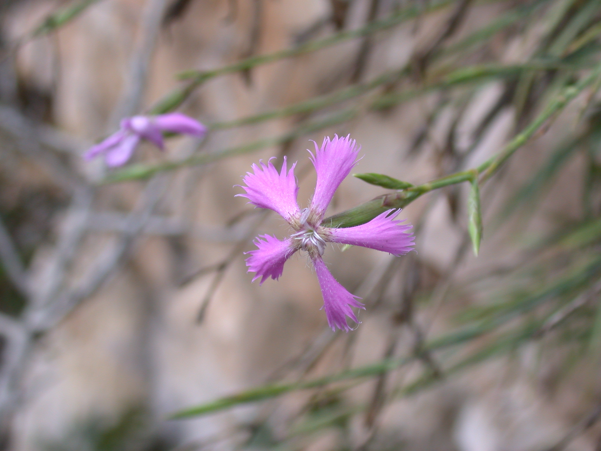 Dianthus pendulus Boiss. & Blanche (ציפורן משתלשל), Mount Carmel, Israel, September 2006.